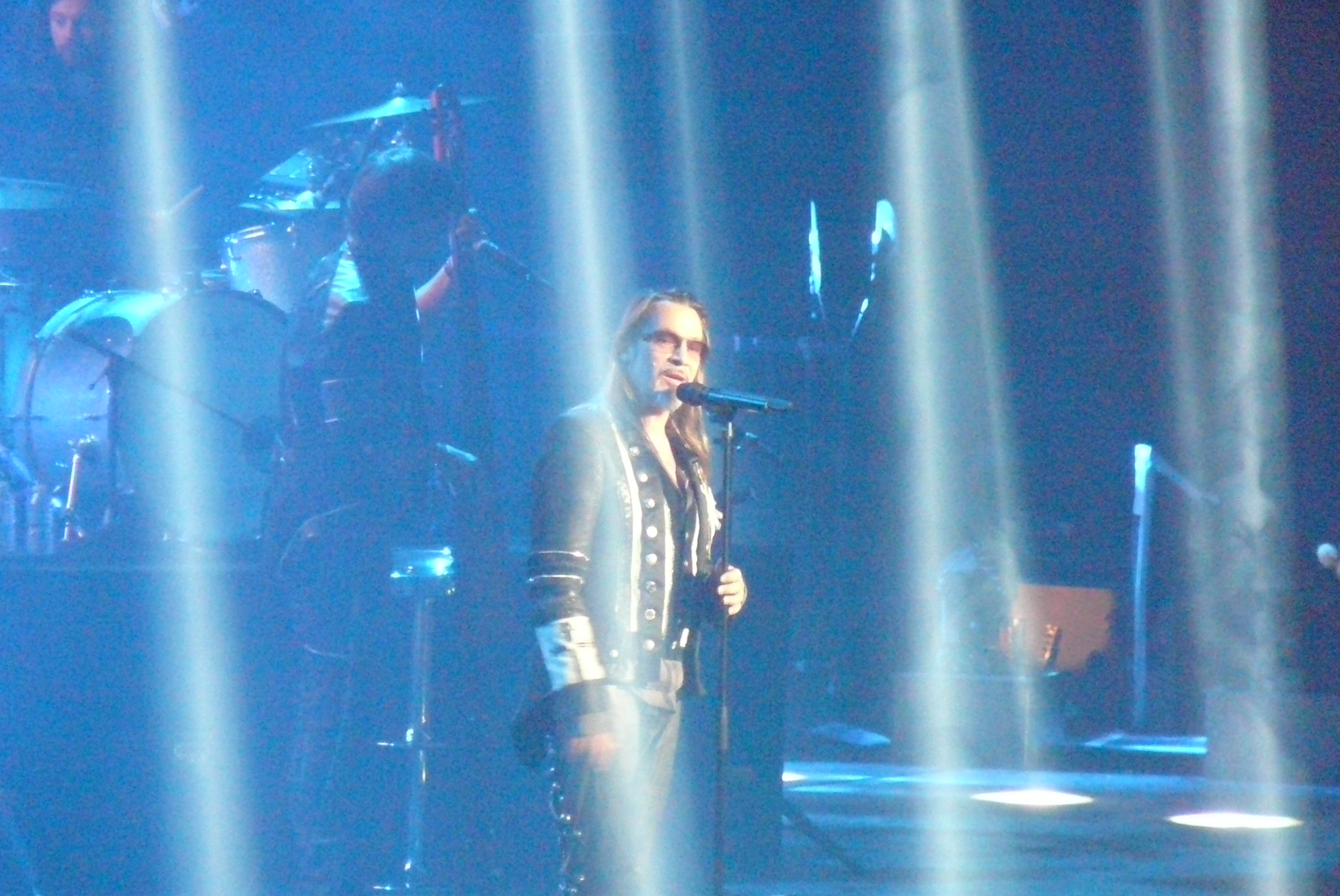 French singer Florent Pagny on the stage of Forest National, in Brussels, Belgium, on 23 October 2014, during his Vieillir Ensemble tour